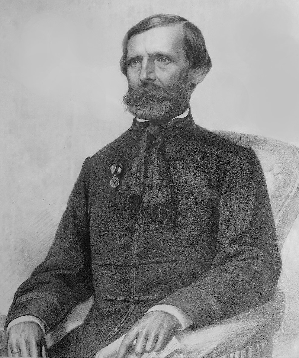 Reitter Ferenc Marastoni József litográfia